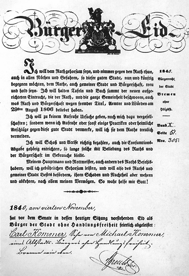 The Bremer Bürgereid (the “citizens’ oath of Bremen”) from the year 1840.